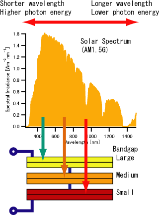 Basic idea of stacked solar cells